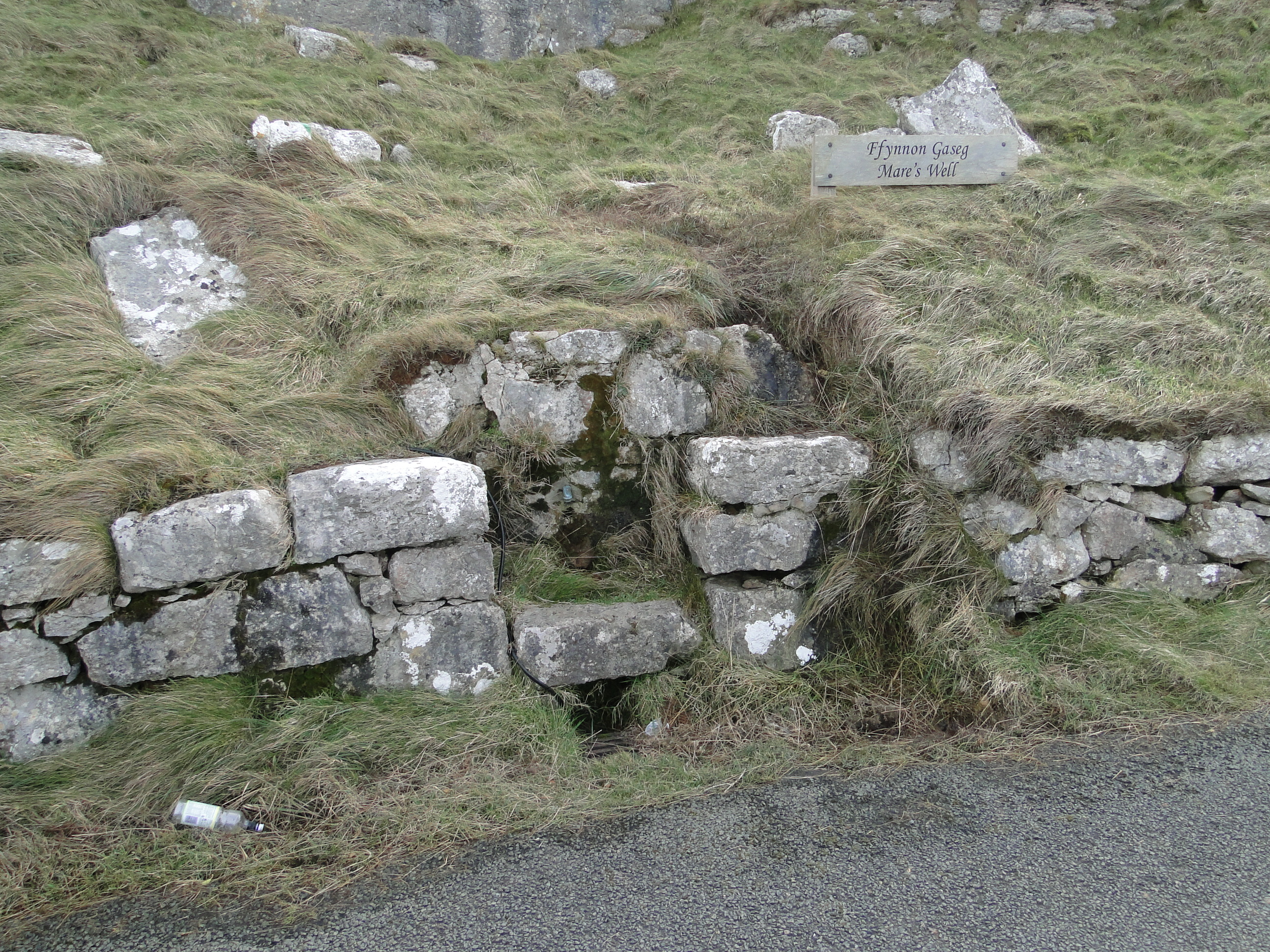 Ffynnon y Gaseg: one of the historic wells on the Great Orme, Llandudno